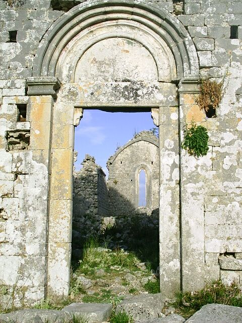 Medieval ruins of the town of Svač, Montenegro